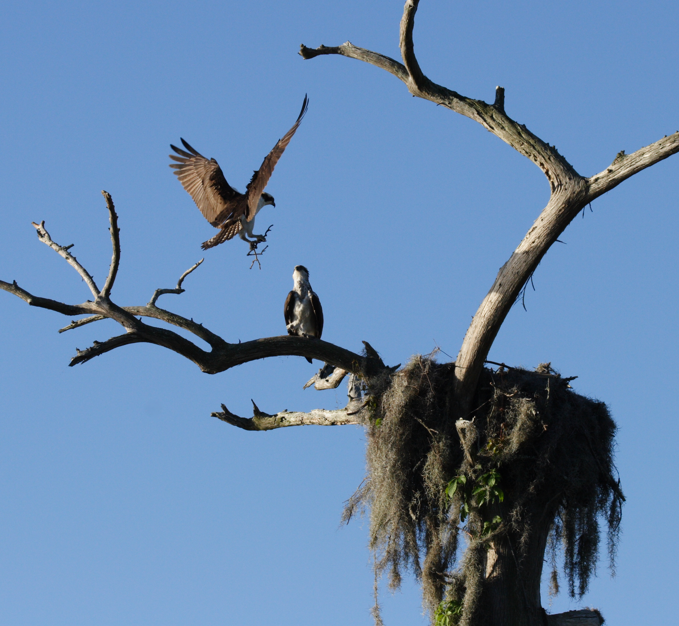 An Osprey landing in the nest at Boy Scout Camp Echockotee in Orange Park, Florida, 32073. The Osprey brings a tree branch to build the nest. His partner sits next to nest watching him to land.